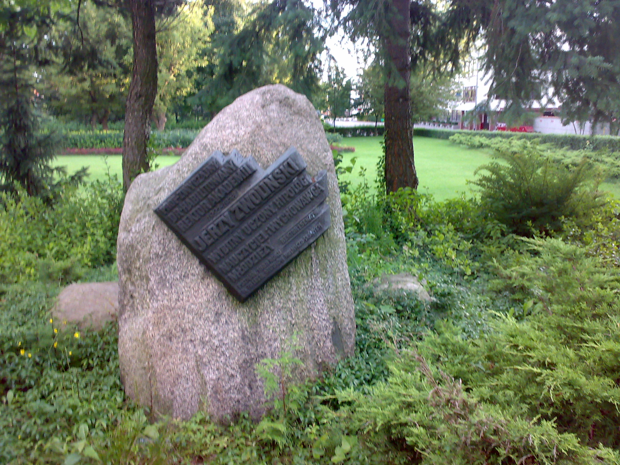 Jerzy Zwoliński Erratic in Poznan. Wolynska Street.